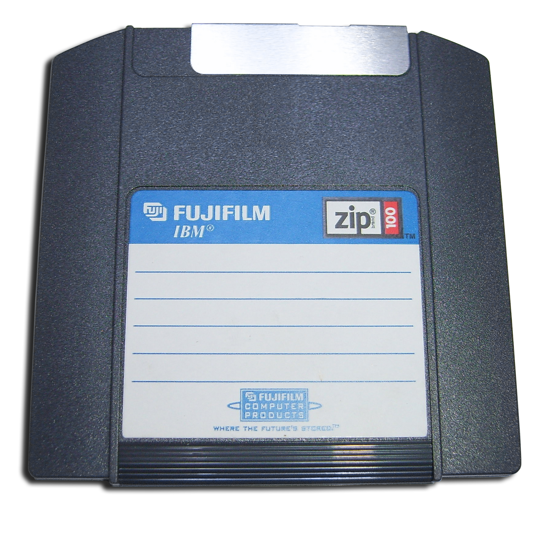 100MB Zip Disc for Iomega Zip, Fujifilm/IBM-branded